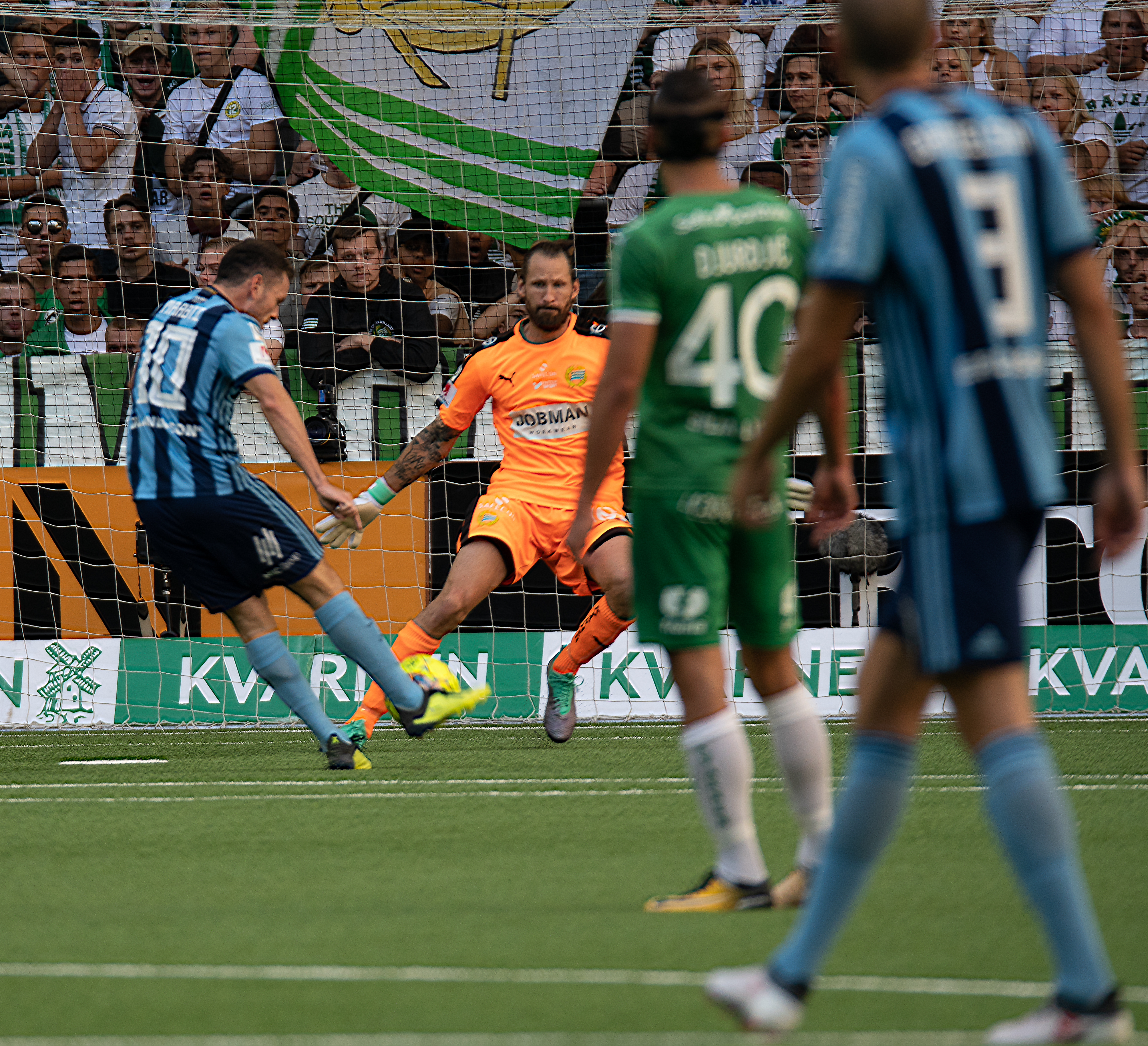 Hammarby IF - Djurgården IF 2018-09-03